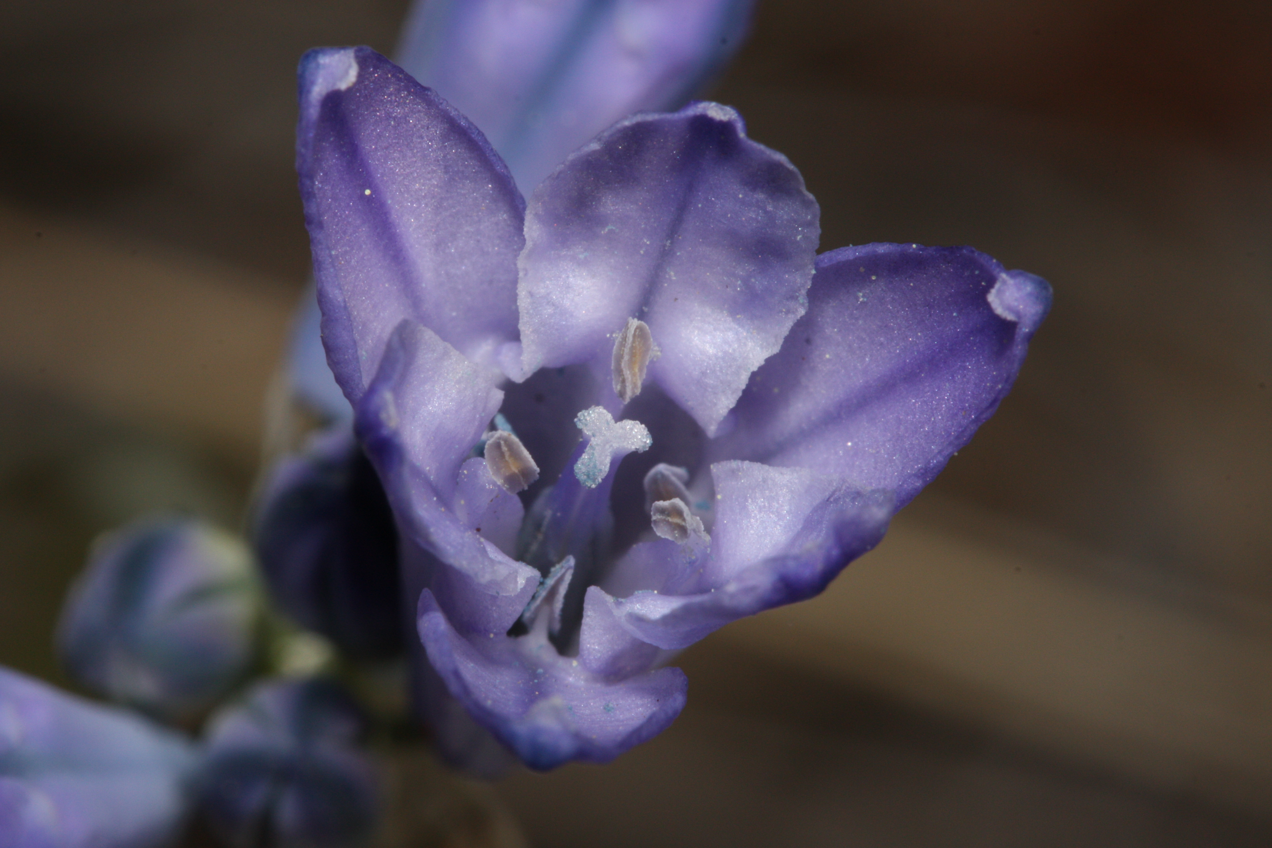 Large-flower Triteleia, Douglas' Brodiaea.